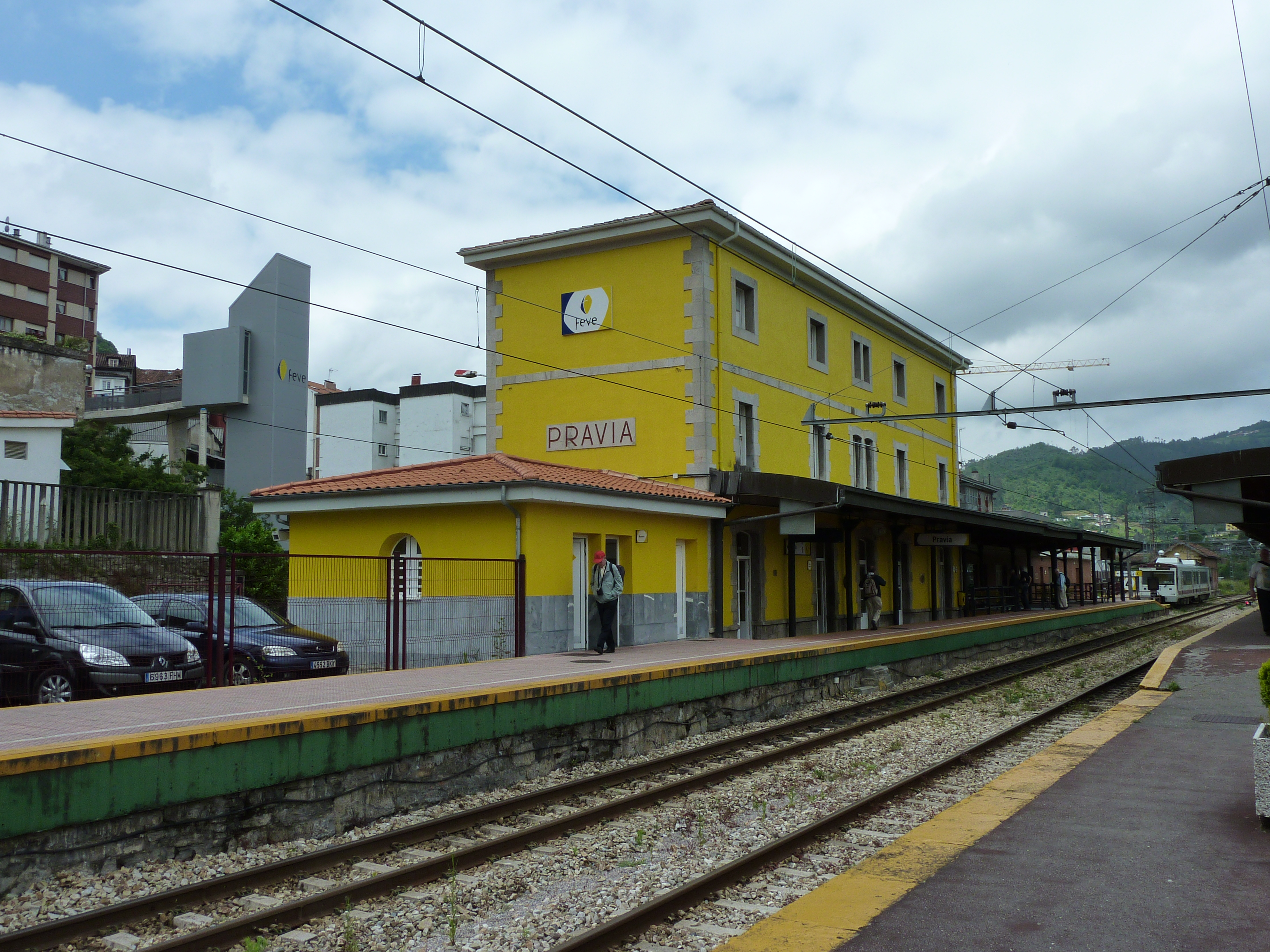 Railway station Pravia (FEVE) in Asturias, Spain